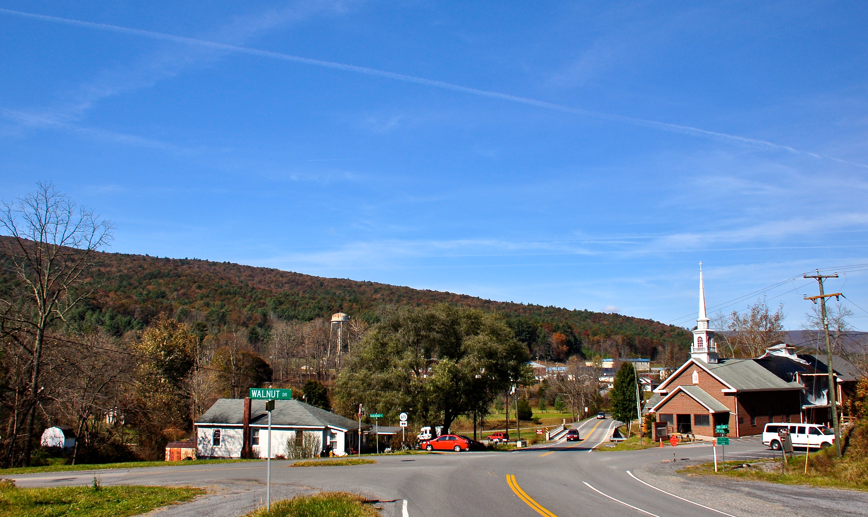 Entering Bastian, Virginia heading northbound on US Highway 52.